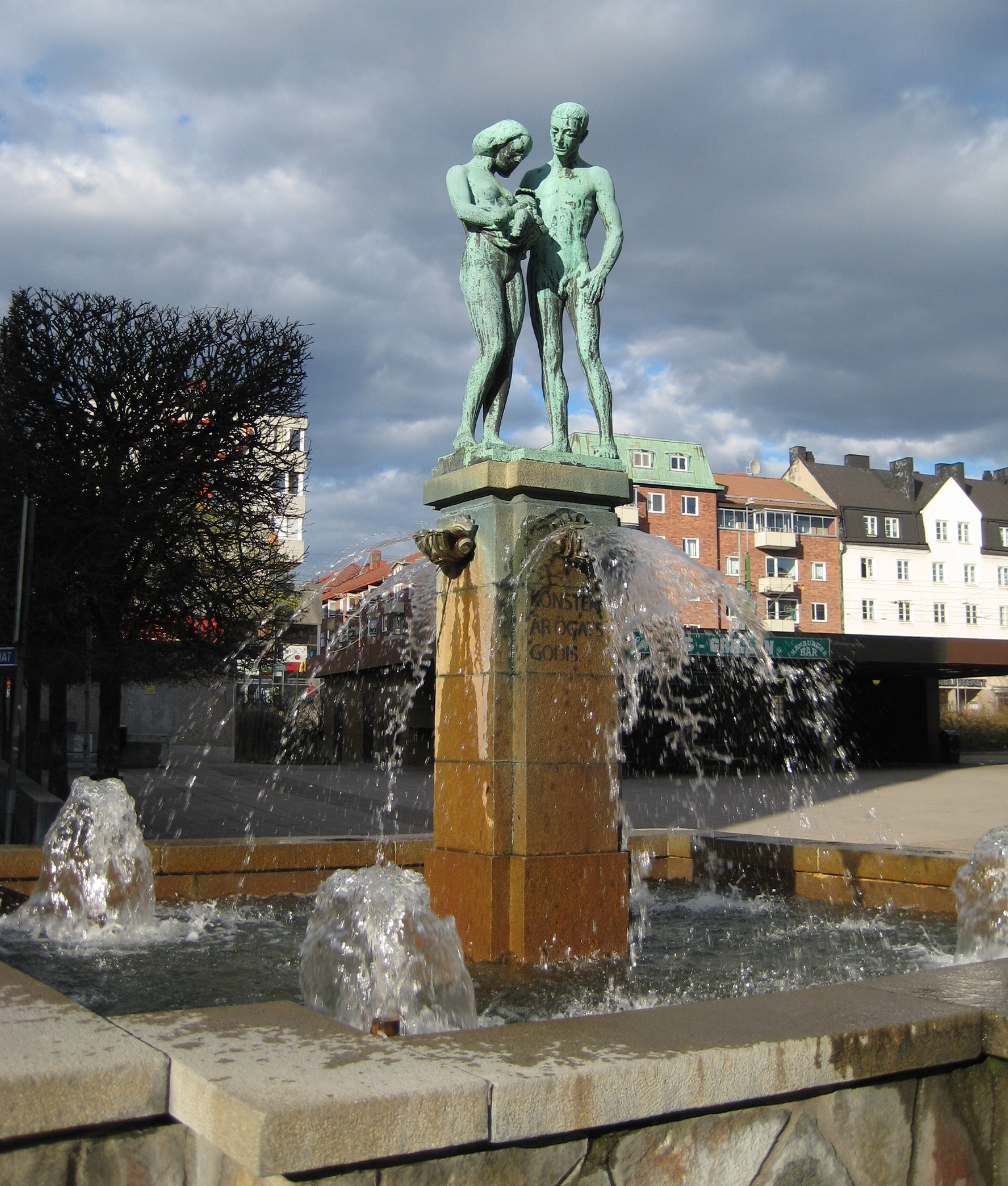 Industribrunnen (Industry fountain) on Sundbybergs torg (Sundbyberg, Sweden). Sculpture: Lyckliga familjen by the local sculptor Carl Fagerberg.